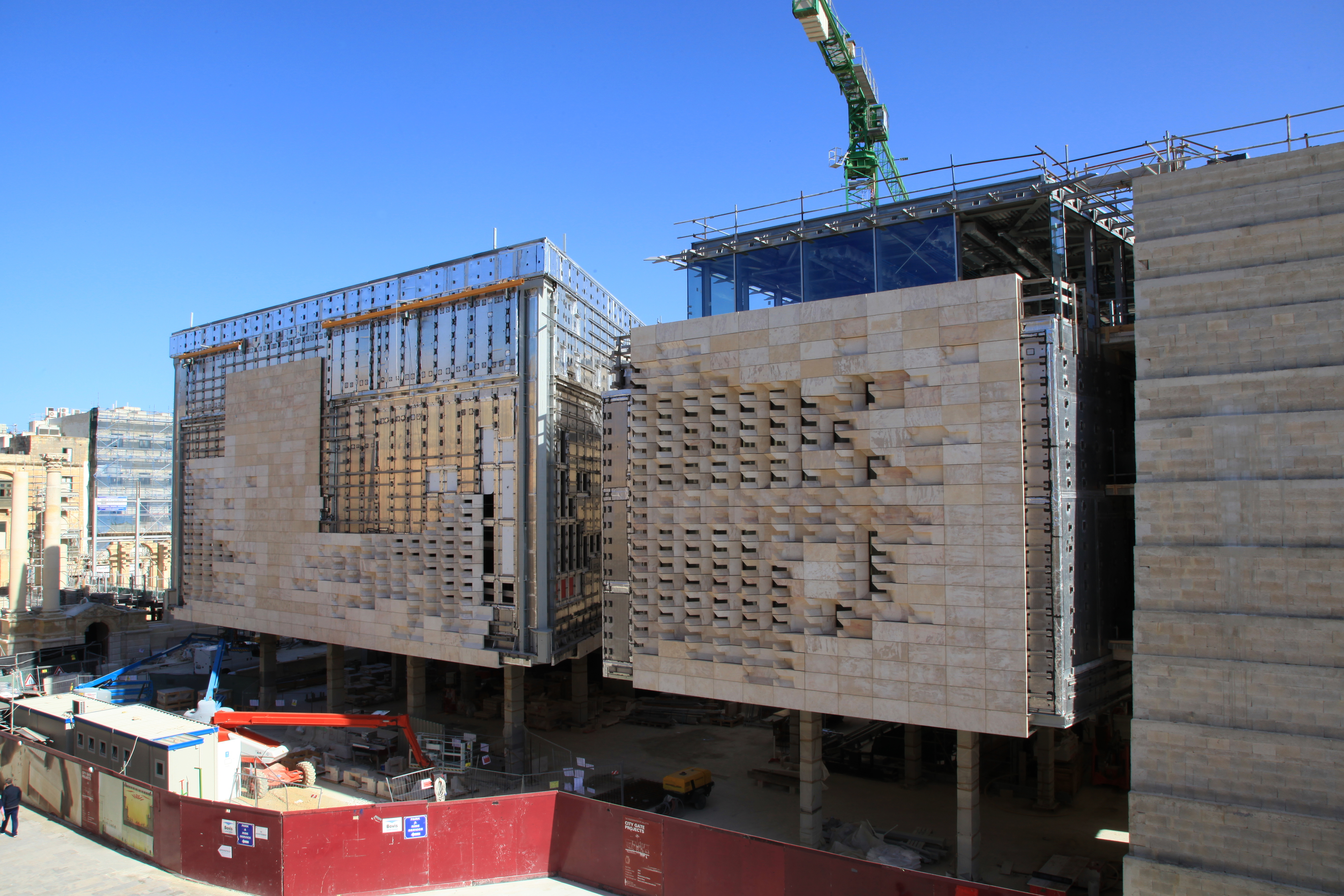 View from St. John's Bastion to the New Parliament Building, Triq ir-Repubblika in Valletta, Malta